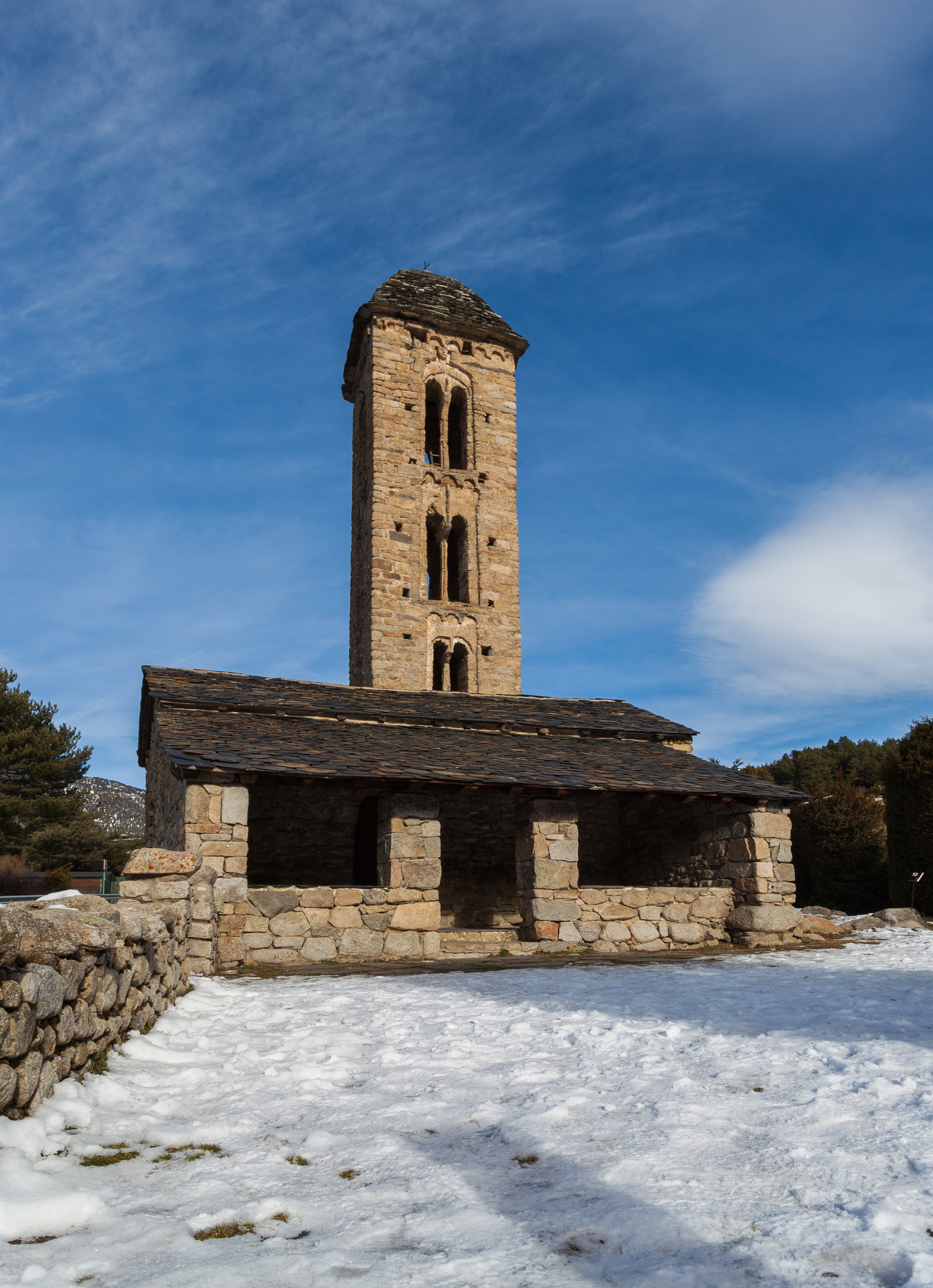 St Michael church, Engolasters, Andorra